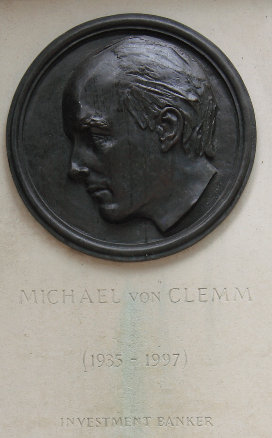 Memorial to Michael von Clemm in Cabot Square, London